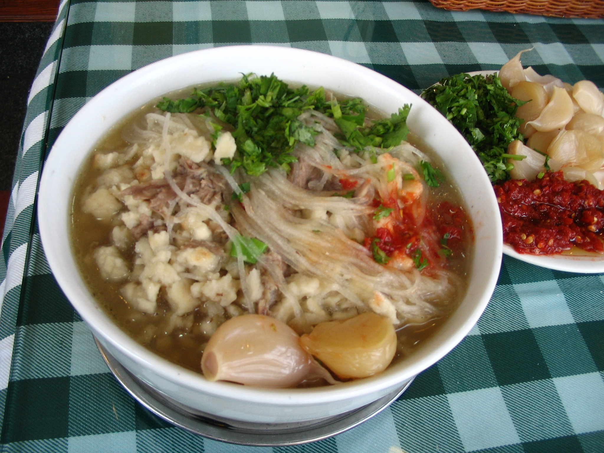 Description（描述）: Yang rou pao mo at Old Sun's, Xi'an, China 中国西安老孙家羊肉泡馍 Source（来源）: pictured by myself 自己拍摄 Athor（作者）: Pubuhan Links（链接到）：泡馍